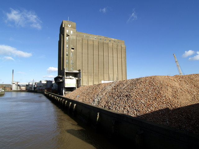 Remains of the Spillers' Silo This huge pile of brick rubble is all that now remains of the former Spillers' Silo which was recently demolished.